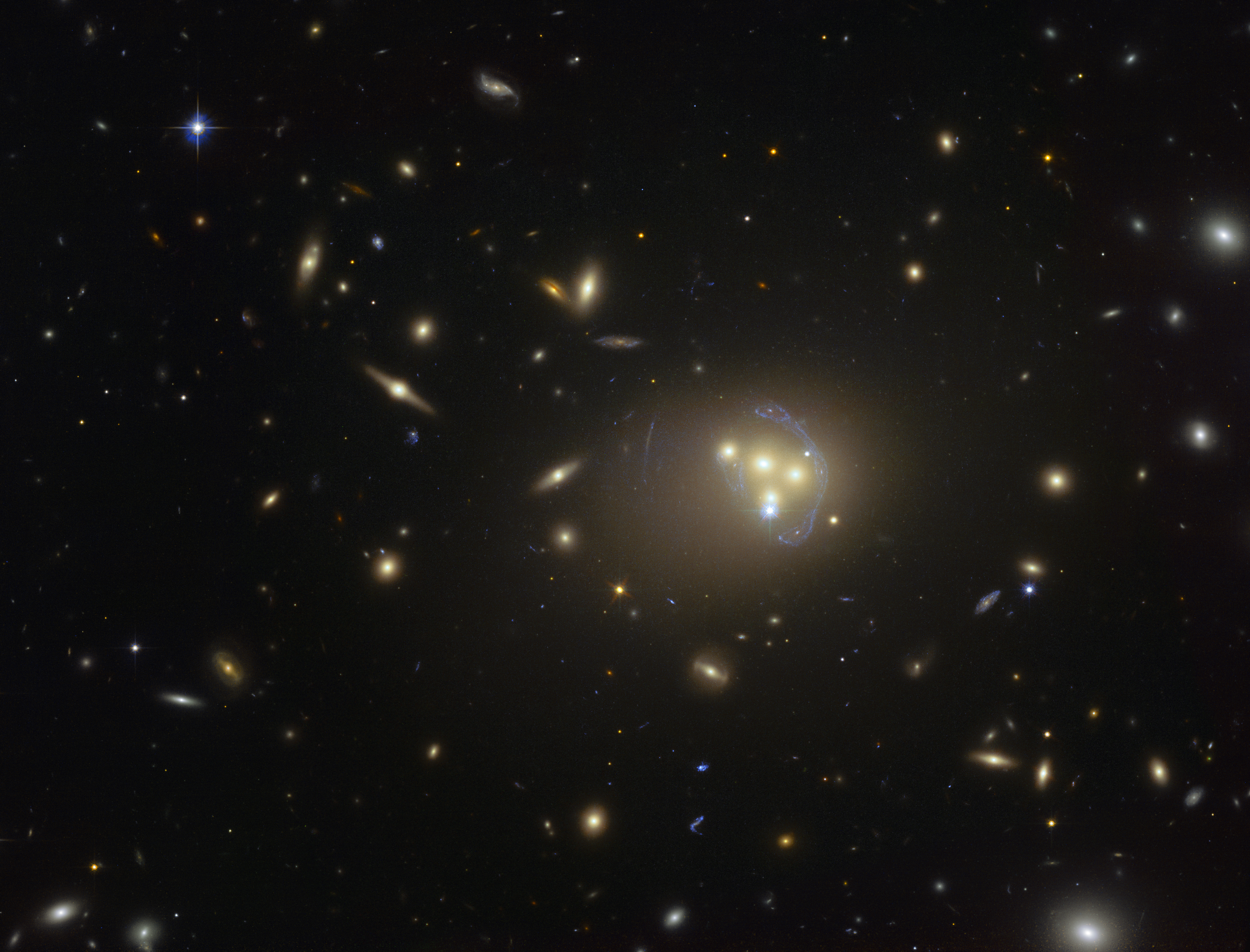 This image from the NASA/ESA Hubble Space Telescope shows the rich galaxy cluster Abell 3827. The strange blue structures surrounding the central galaxies are gravitationally lensed views of a much more distant galaxy behind the cluster. Observations of the central four merging galaxies have provided hints that the dark matter around one of the galaxies is not moving with the galaxy itself, possibly implying dark matter-dark matter interactions of an unknown nature are occuring.